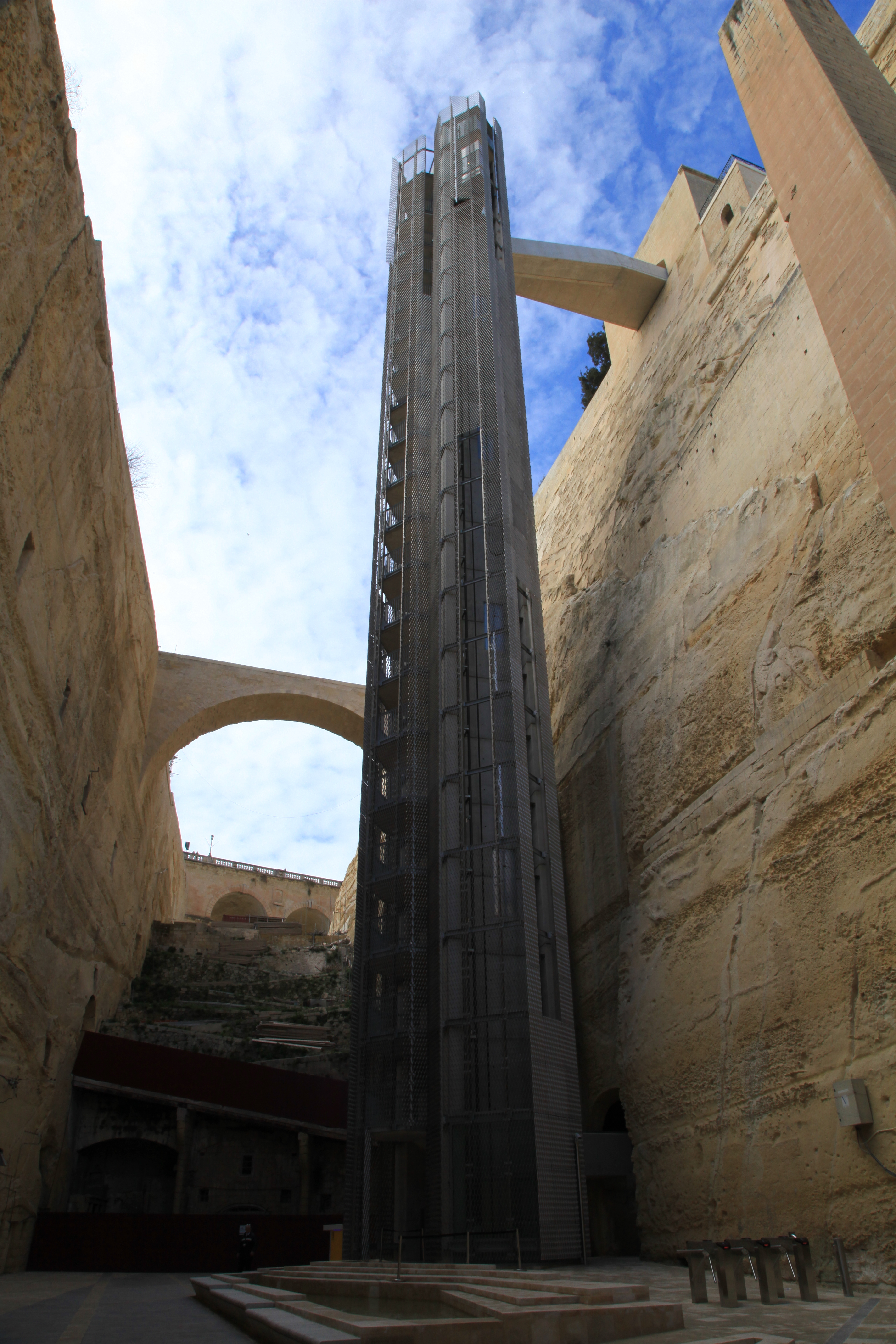 Upper Barrakka Lift at Xatt Lascaris in Valletta, Malta